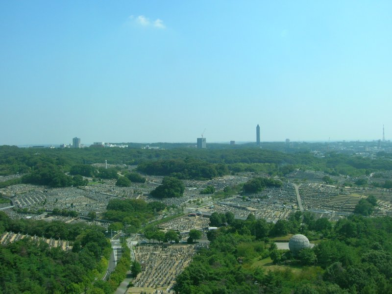 Heiwa kōen (Heiwa Park, Nagoya citizens grave garden), View from Heiwa kōen aqua tower. Loc: Nagoya city, Aichi Prefecture, Japan